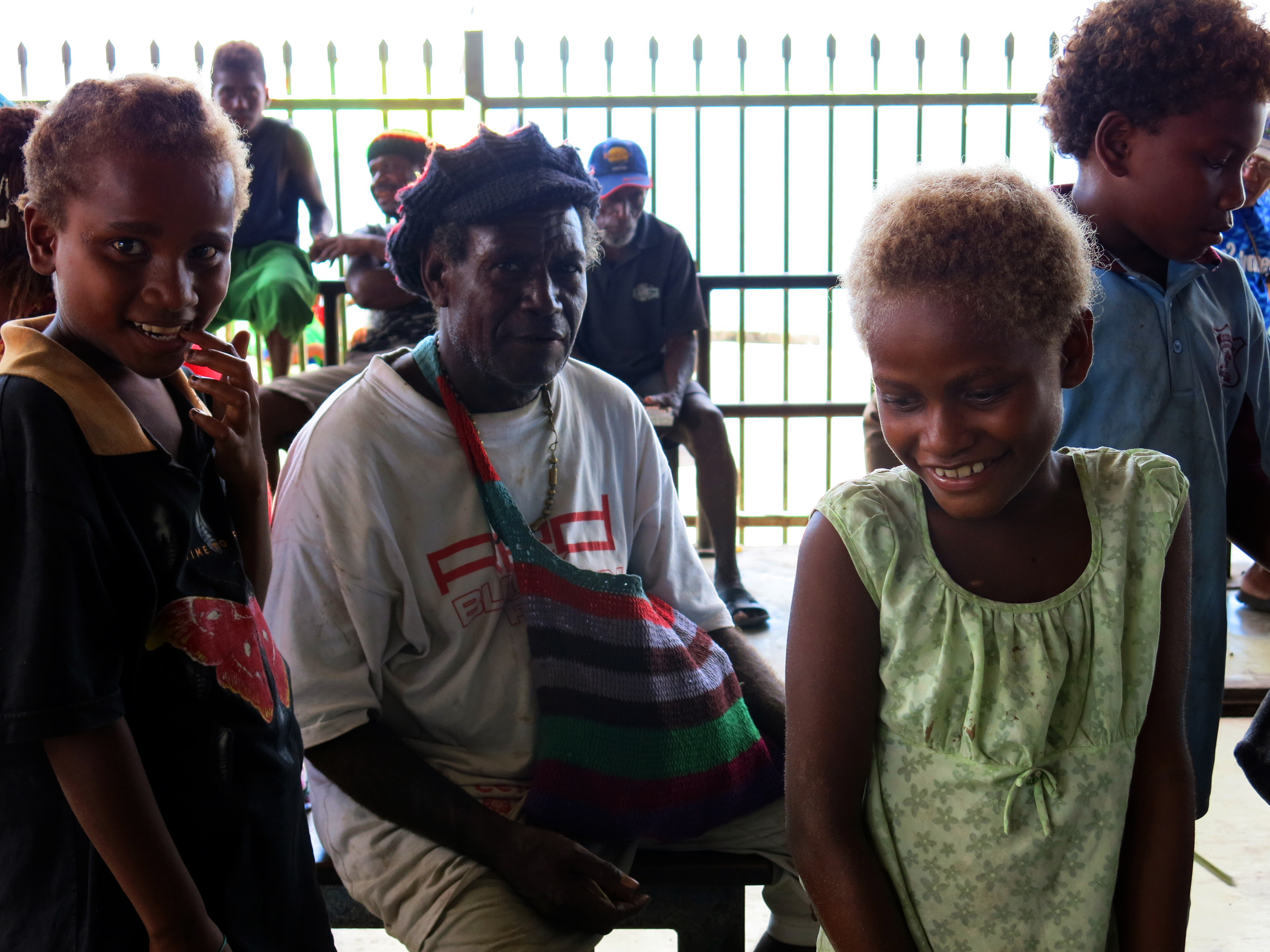 A family sits around at Honiara Central Market.